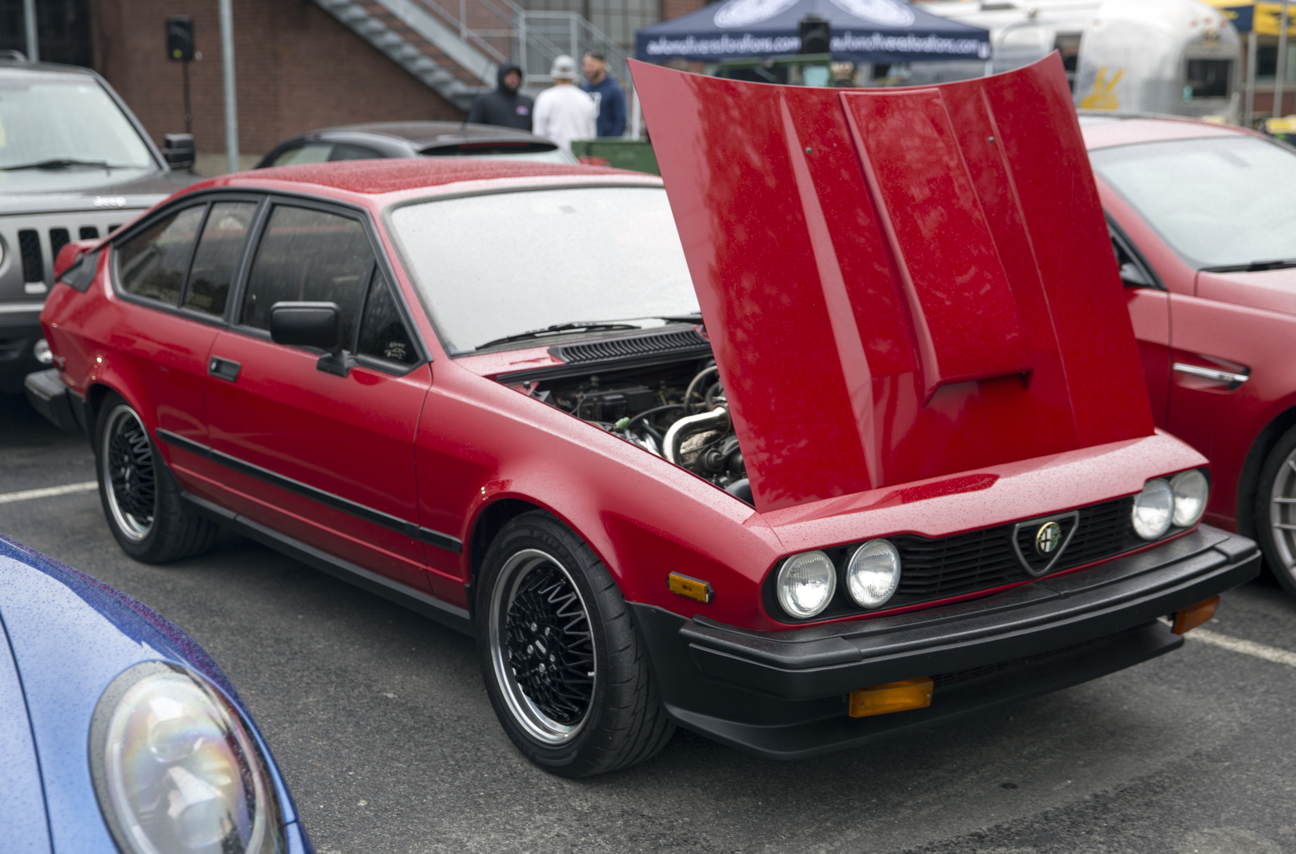 A 1985 Alfa Romeo GTV/6 2.5 Callaway C3 Twin Turbo. At a "Pints & Pistons" event in Stratford, CT. Note the Callaway-specific bonnet scoop. The Callaways also eschewed the TRX wheels of the regular GTV 6, although these rims look to be considerably more modern than the rest of the car. 36 of these (or thereabouts) were built; first one I've ever seen.